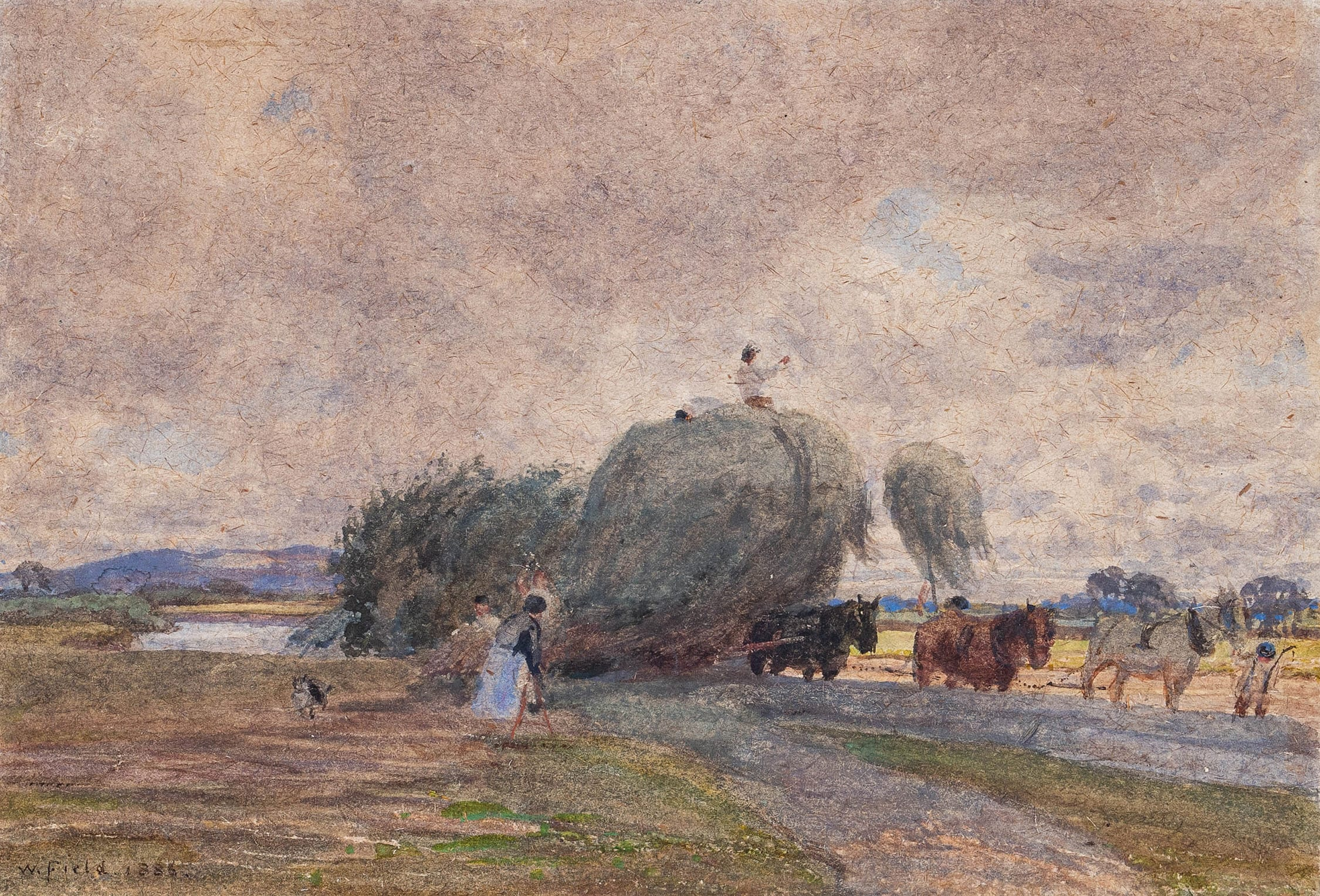 Offered for sale in November 2019 by Abbott and Holder, when it was described as "FIELD Walter (1837-1901) ‘Borough Marsh’: a hay harvest. Watercolour. Signed and dated, 1885. 4.75x6.75 inches."